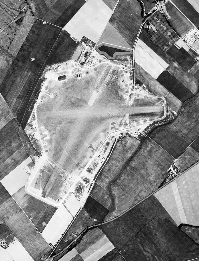 Aerial photograph of Fowlmere airfield 31 May 1944, taken by 13th Photographic Squadron, 7th Photographic Reconnaissance Group, sortie number US/7GR/LOC356. English Heritage (USAAF Photography).